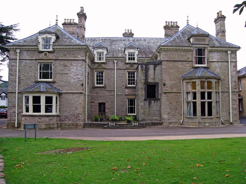 General photograph of Drybridge House, Monmouth